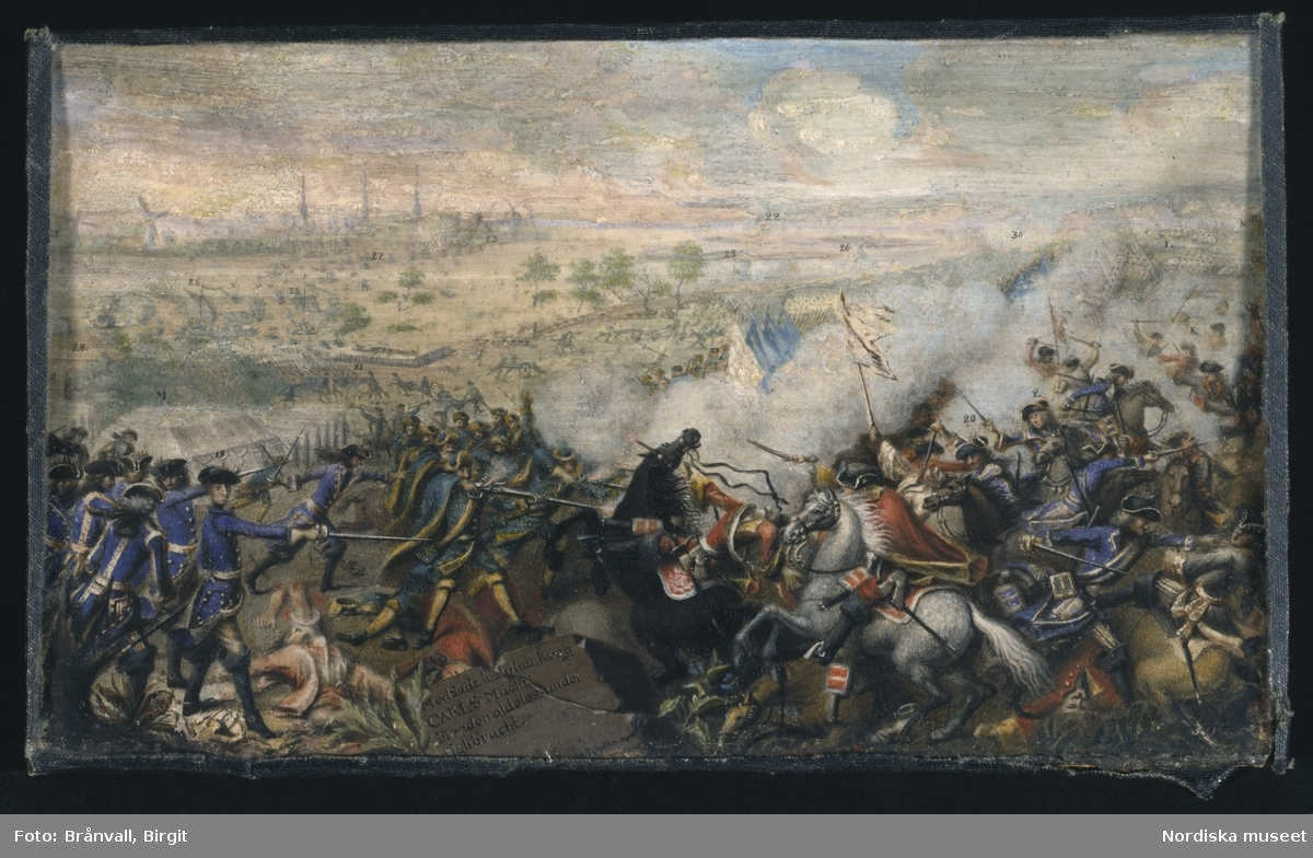 Crossing of the Düna on July 9, 1701. Battle scene between swedish trabants and saxon soldiers after the crossing of the Düna river.